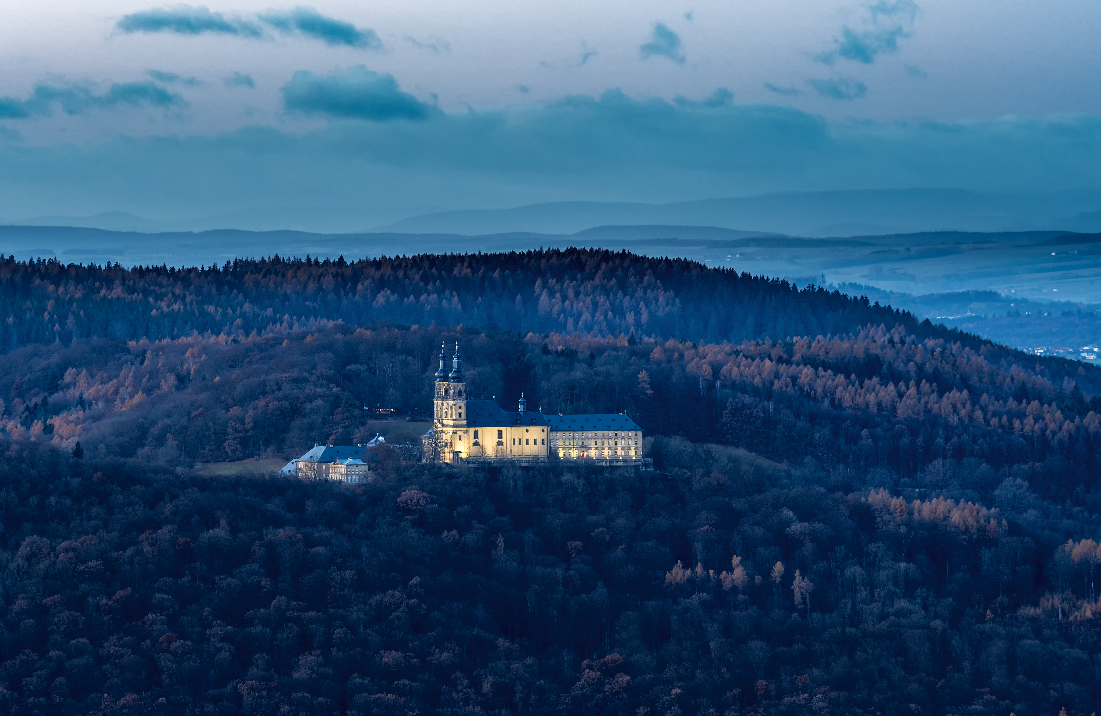 Kloster Banz seen from the Staffelberg